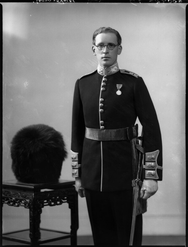 Charles William Frederick Hope, 3rd Marquess of Linlithgow by Bassano Ltd whole-plate film negative, 22 July 1937 Given by Bassano & Vandyk Studios, 1974 Photographs Collection NPG x153089